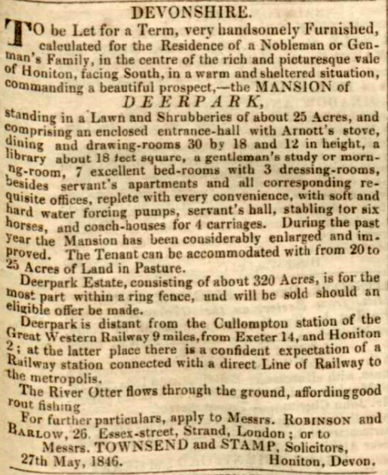 Rental notice for Deer Park, Honiton 1846